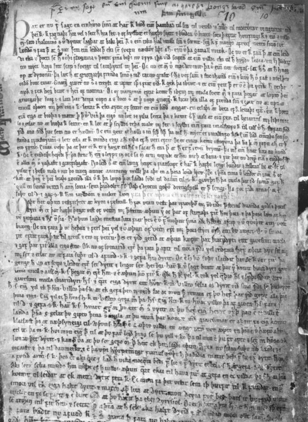 Morkinskinna, page of manuscript GKS 1009 fol